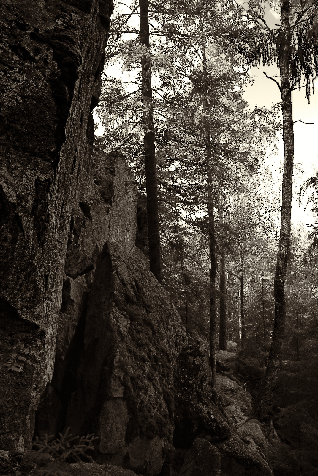 Pirunlinna hill fort in Kulju, Lempäälä, Finland